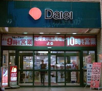 Daiei Tokorozawa Store